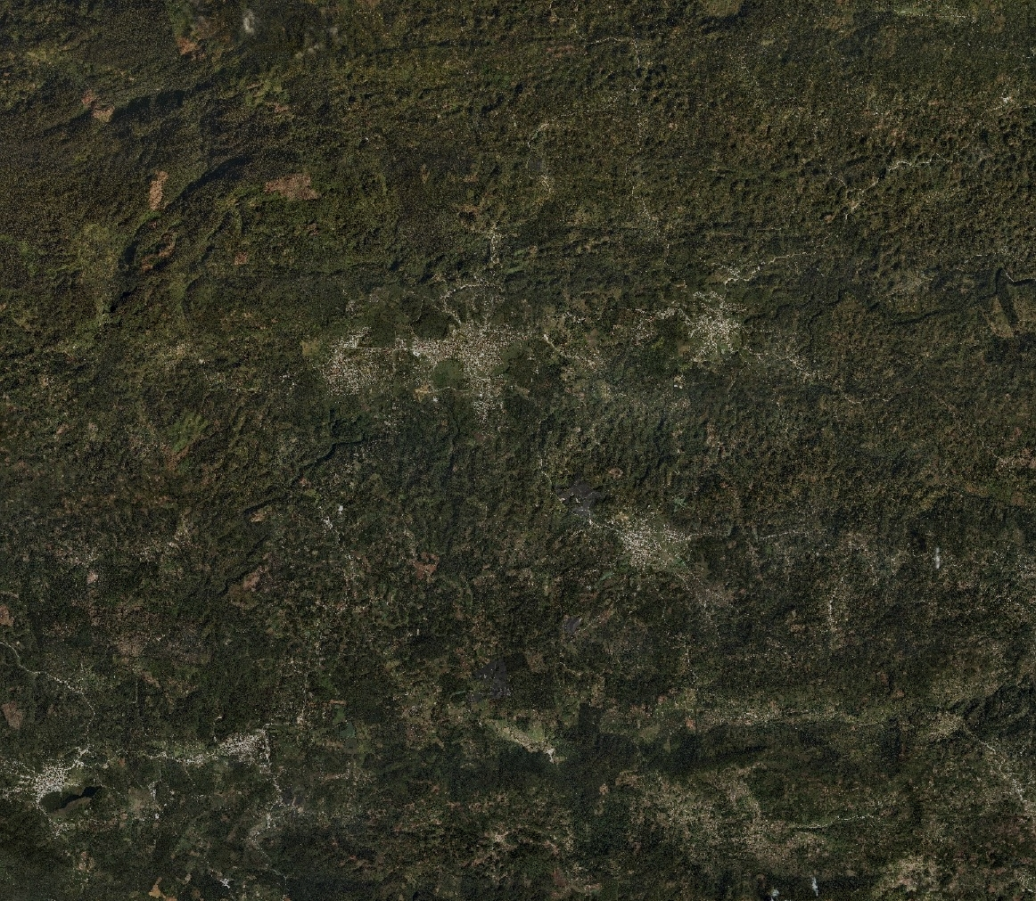 AMC-Cobán Guatemala